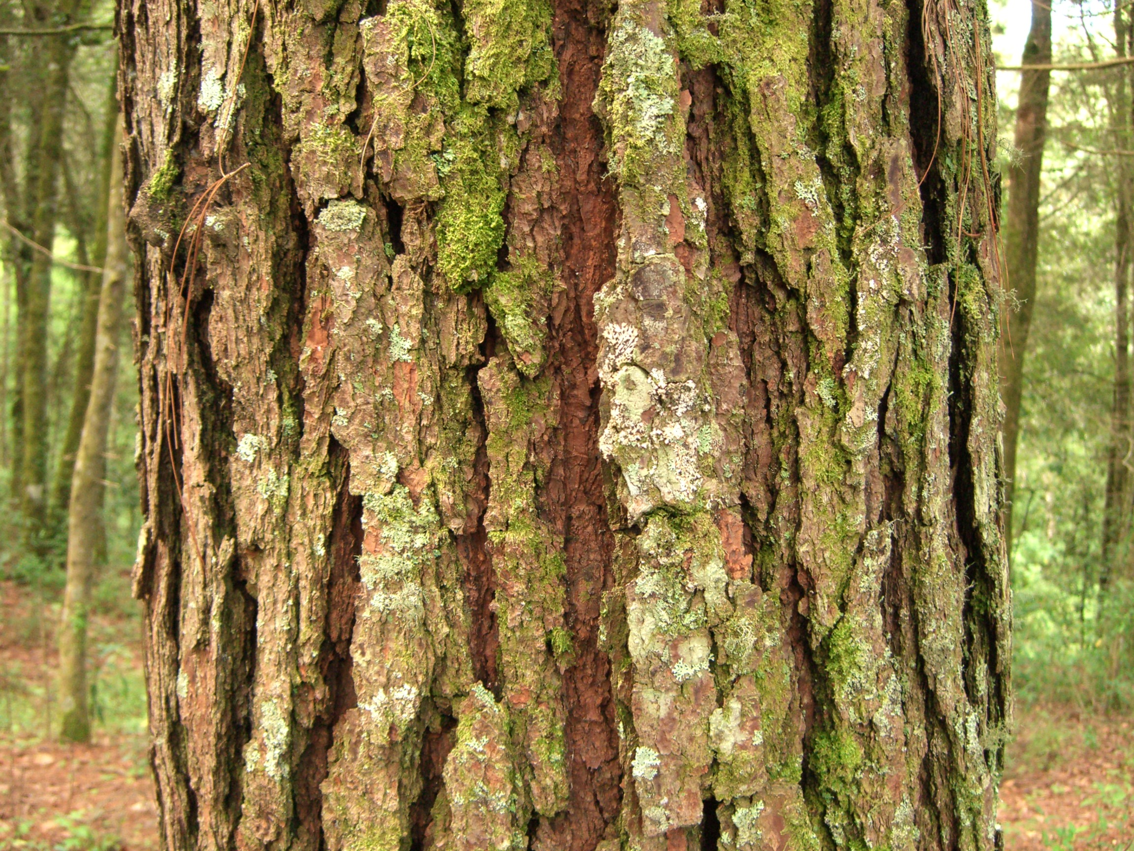 Detail of the bark of a pine tree in Tecpan, Guatemala.